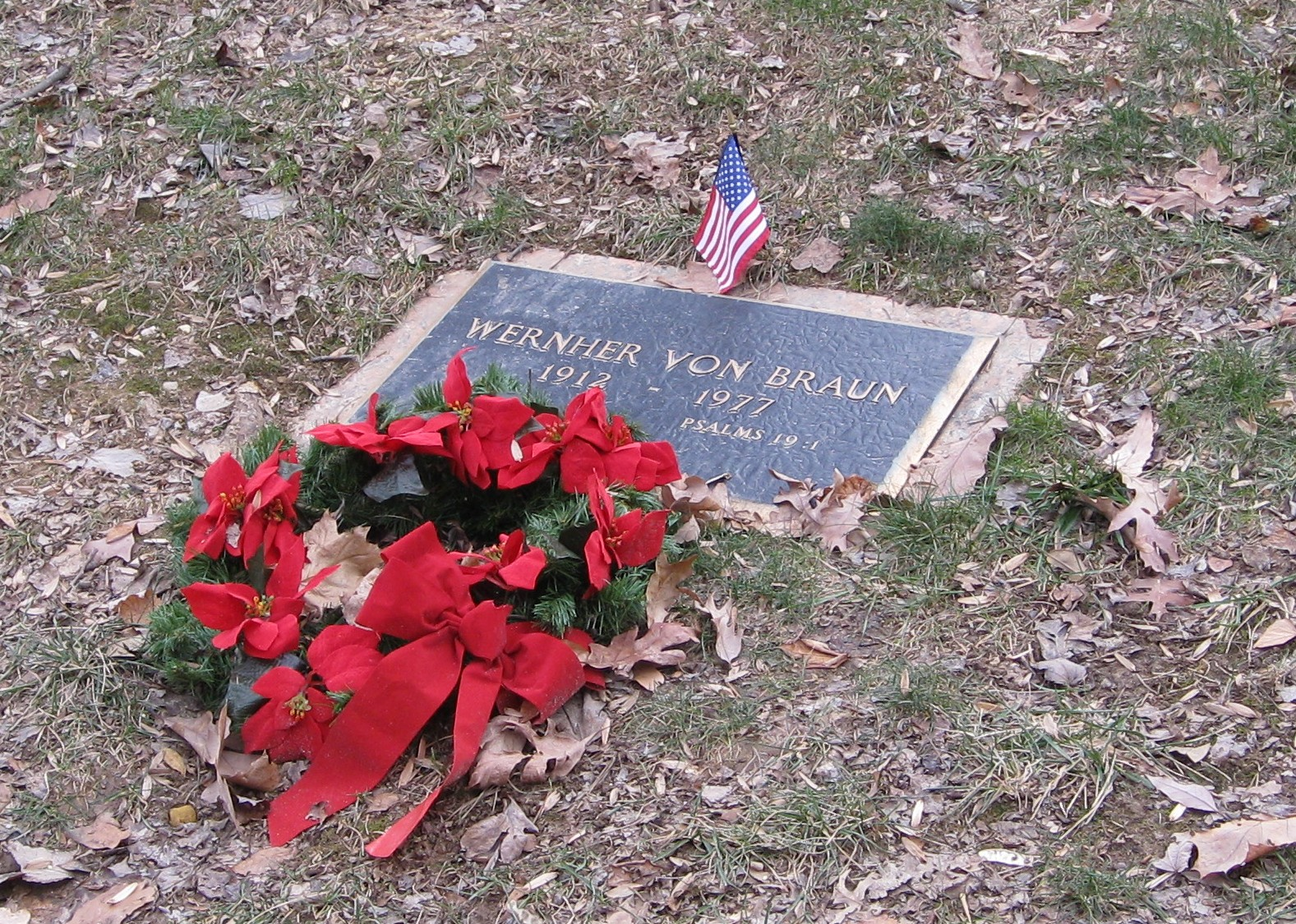 Grave of the German-American scientist, Wernher von Braun, in Ivy Hill Cemetery in Alexandria, Virginia